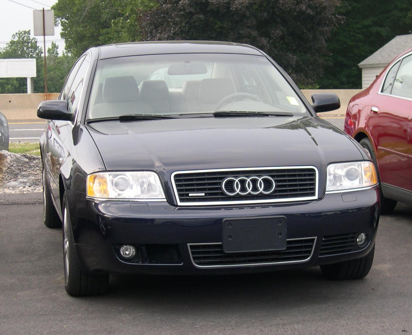 2004 Audi A6 Quattro Source: Photo by User:Sfoskett